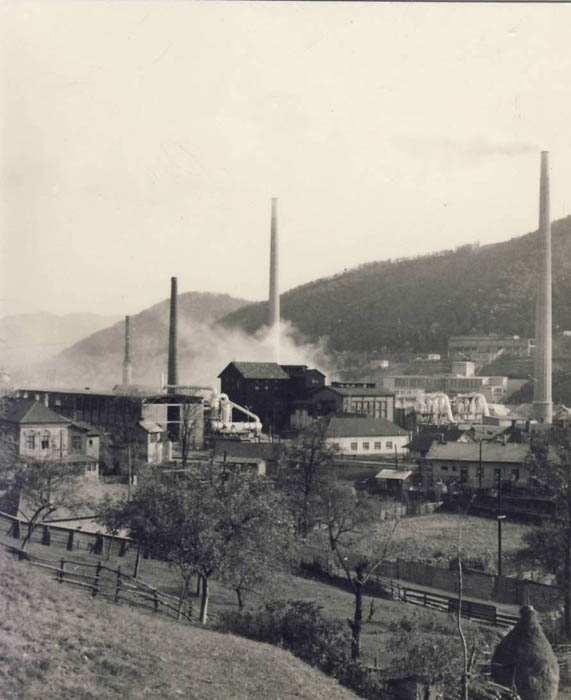 mining plant in Zlatna